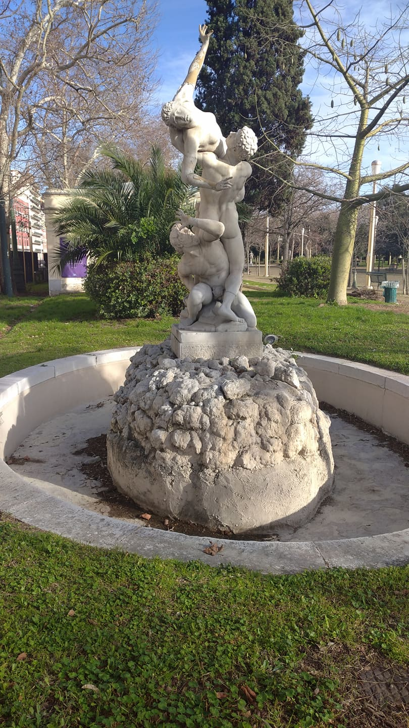 Fountain in Naples (Ratto delle Sabine)